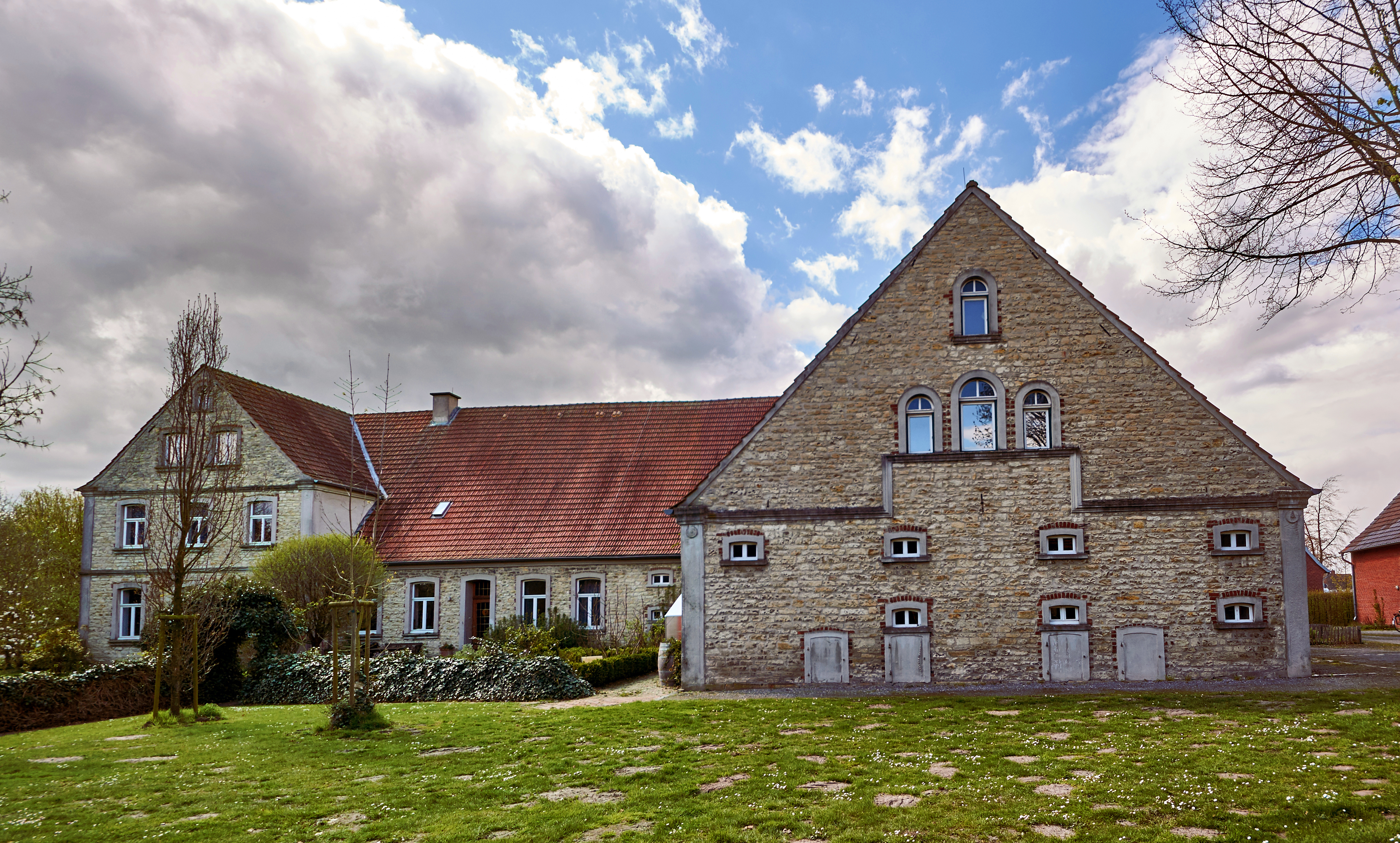 Hof der bildenden Kunst in Schöppingen, North Rhine-Westphalia, Germany. This is a photograph of an architectural monument.